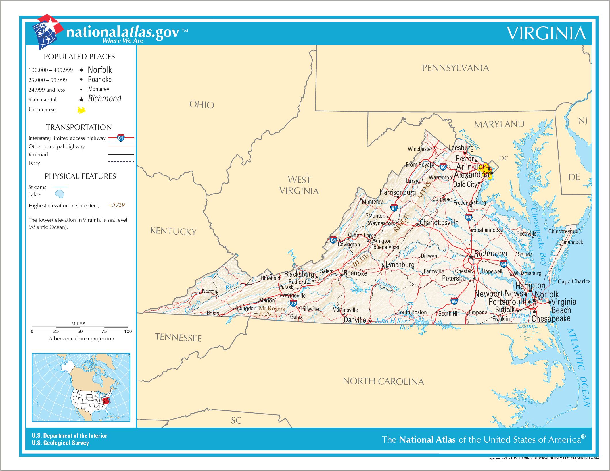 Map of Virginia